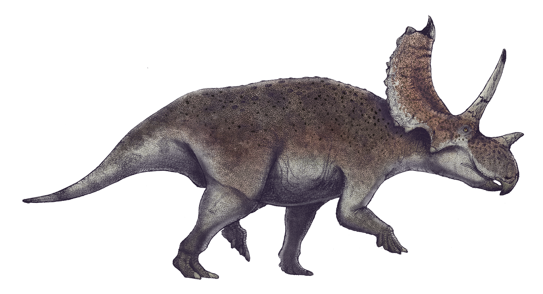 Life restoration of Agujaceratops mariscalensis.